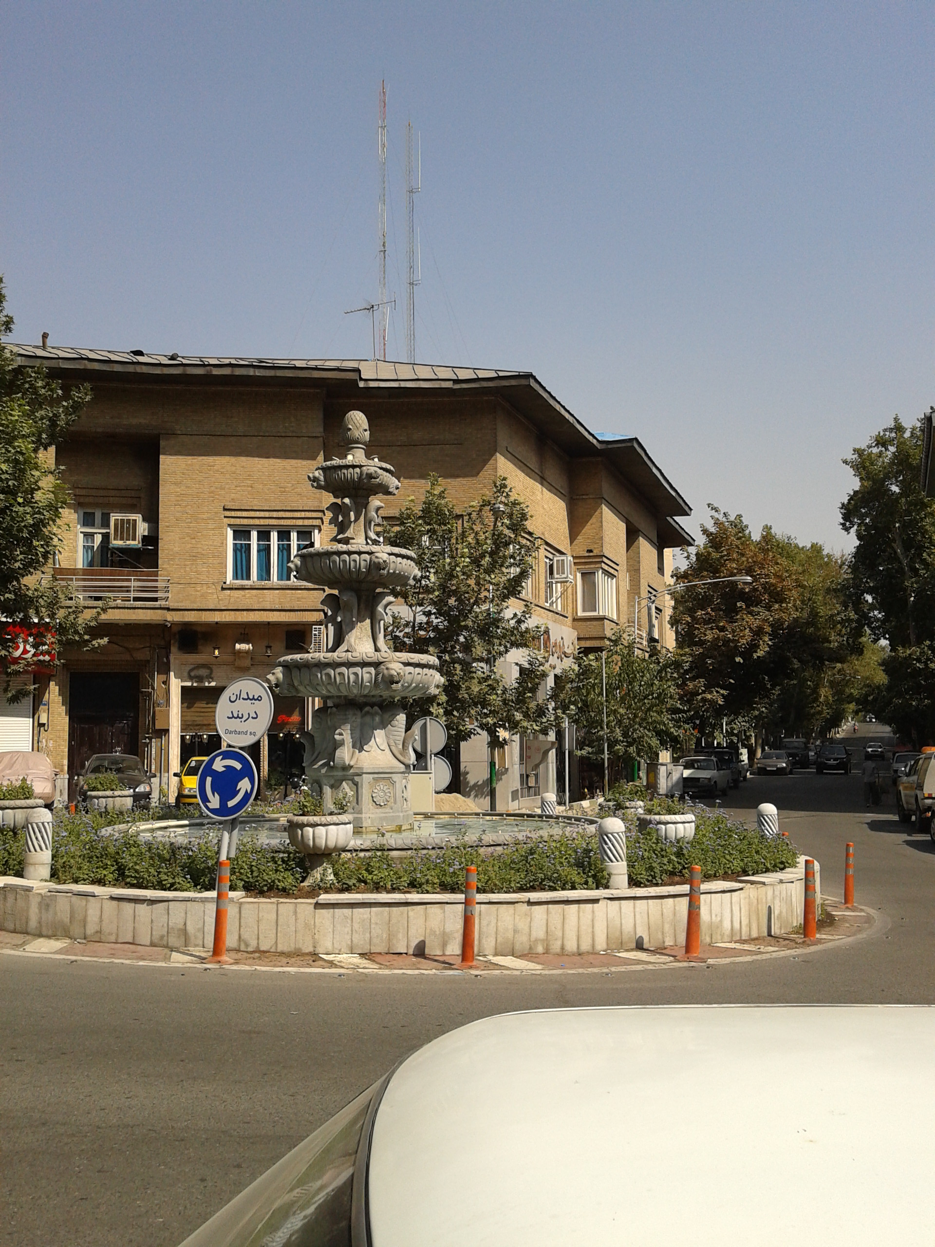 Darband Square